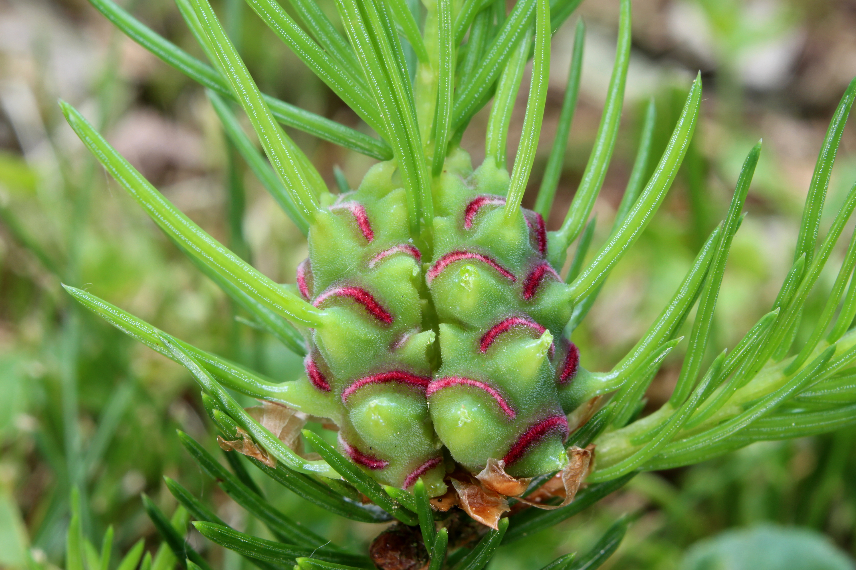 Gall: Green spruce gall aphid Adelges viridis syn. Sacchiphantes viridis on Spruce Picea sp., Location: Germany, Erbach, Ringingen